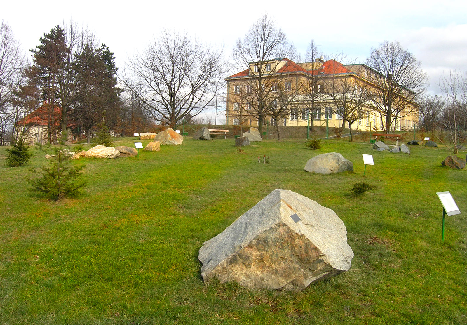 Geopark at Spořilov near Geophysical Institute, Prague